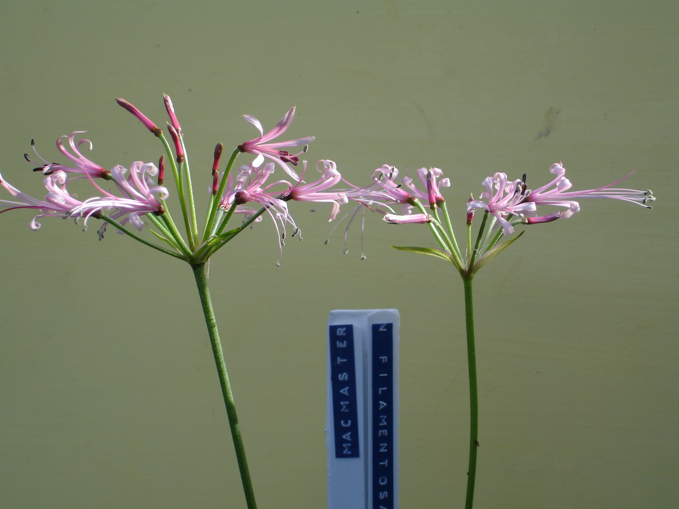 Picture of Flower